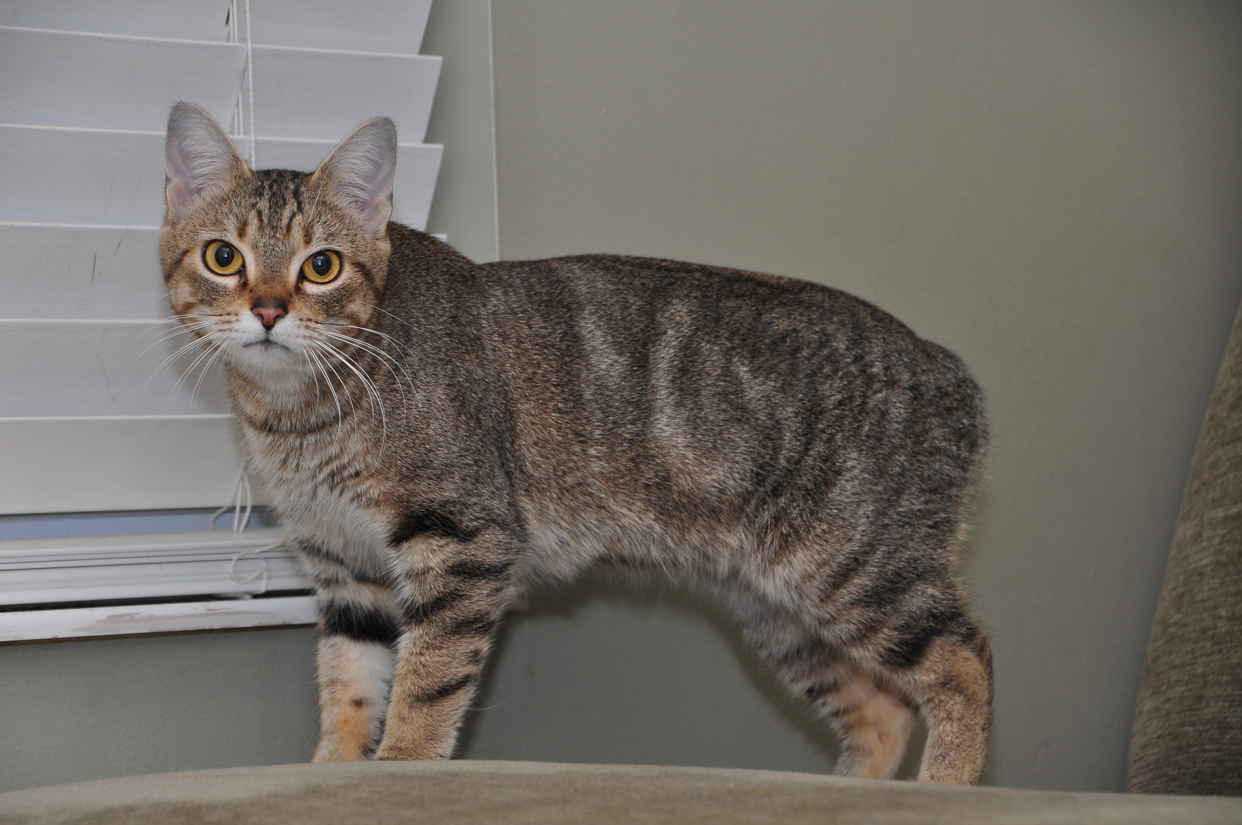 This is a one year old rumpy manx cat